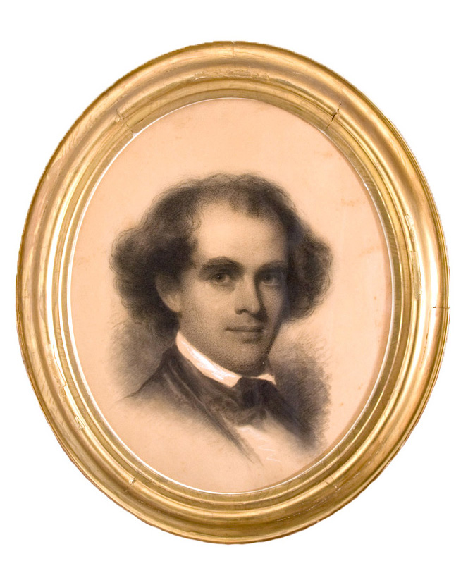 Bust-length portrait of man in charcoal with chalk highlights in gold oval frame In October 1846, Henry Longfellow recorded in his journal: "[Johnson] is to take for me all the club. The mutual Admiration Society which I shall hang in the Hall to show people what a fine set of heads they are." This group of portraits - of Charles Sumner, Cornelius Conway Felton, Ralph Waldo Emerson, and Nathaniel Hawthorne - all hang in Longfellow's study. Keywords: art; drawing; portrait; Nathaniel Hawthorne; Eastman Johnson; LONG 542